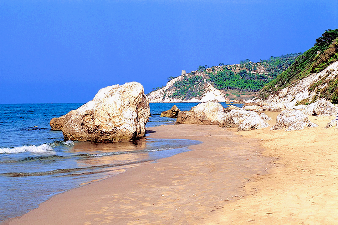 Rocks between the two beaches "cento scalini" and "murge della madonna"